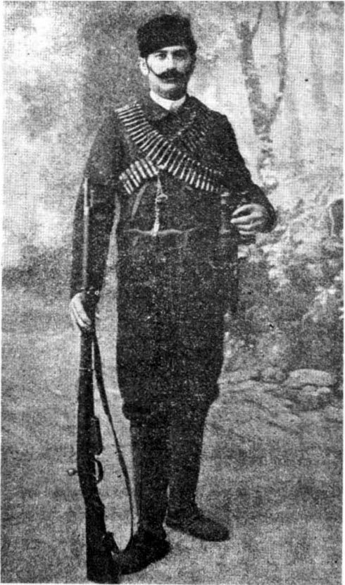 Anđelko Aleksić, Serbian Chetnik commander from Midinci in the Kičevo srez. Photograph taken before 1908.